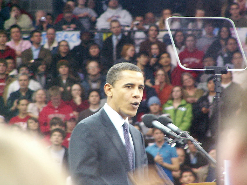 Barack Obama addresses a full Kohl Center during his rally Tuesday night in Madison.